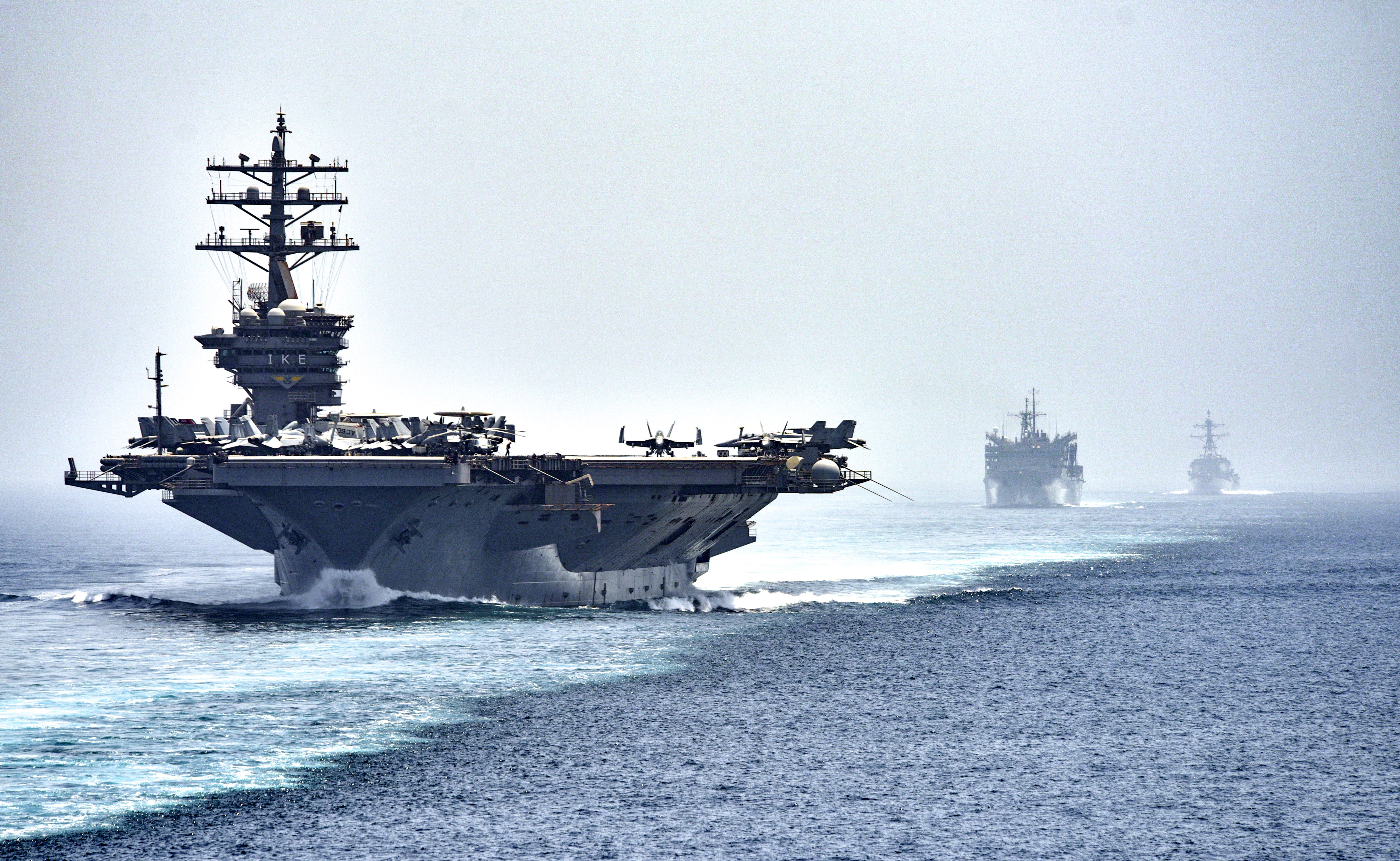 STRAIT OF HORMUZ (July 21, 2016) The aircraft carrier USS Dwight D. Eisenhower (CVN 69), followed by the fast combat support ship USNS Arctic (T-AOE 8) and the guided-missile destroyer USS Nitze (DDG 94), transit the Strait of Hormuz. The Eisenhower Carrier Strike Group is deployed in support of maritime security operations and theater security cooperation efforts in the U.S. 5th Fleet are of operations. (U.S. Navy photo by Mass Communication Specialist 3rd Class J. Alexander Delgado/Released)160721-N-OR652-449 Join the conversation: navylive.dodlive.mil